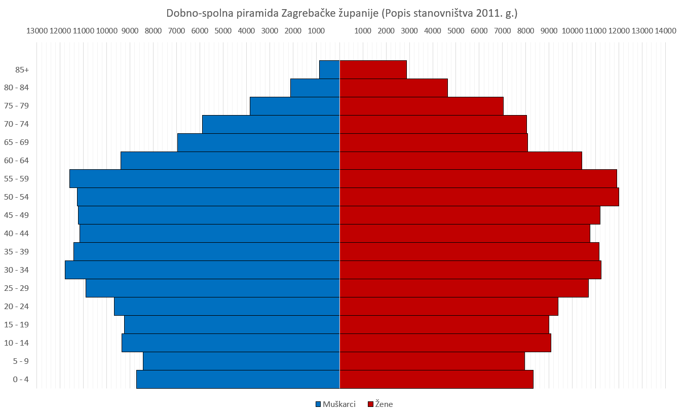 Population pyramid of Zagreb County. Version in Croatian. Data from 2011 Census; available at